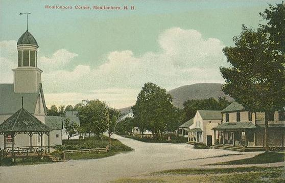 Moultonborough Corner, Moultonborough, NH; from a 1910 postcard.